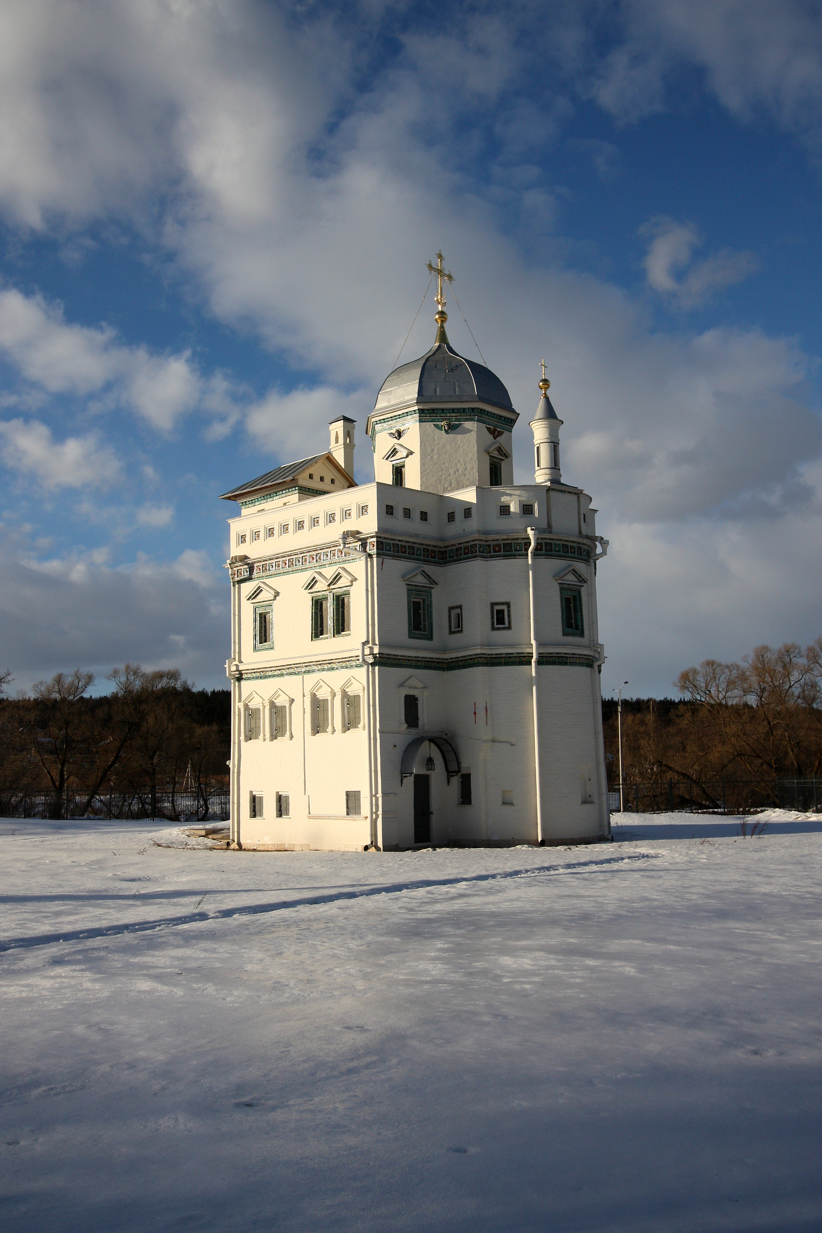 Patriarch Nikon's skete. Resurrection new Jerusalem monastery. the city of Istra, city of Istra district, Moscow oblast, Russia.